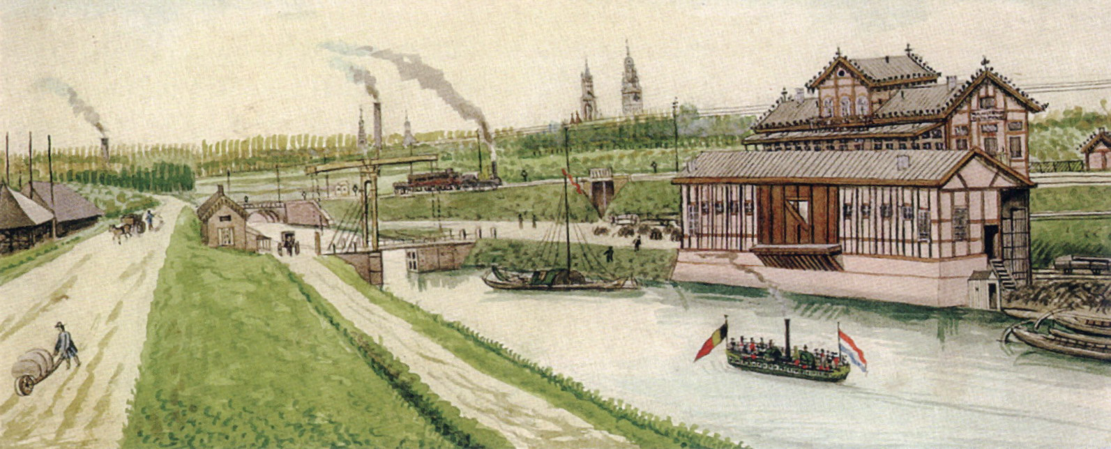 Maastricht, the Netherlands. View towards the south of Zuid-Willemsvaart and the railway station Boschpoort. Drawing by Philippe van Gulpen, c. 1860.